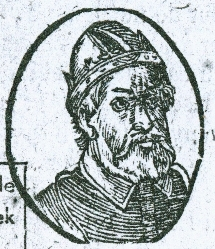 The prophet Jarfke (1759)